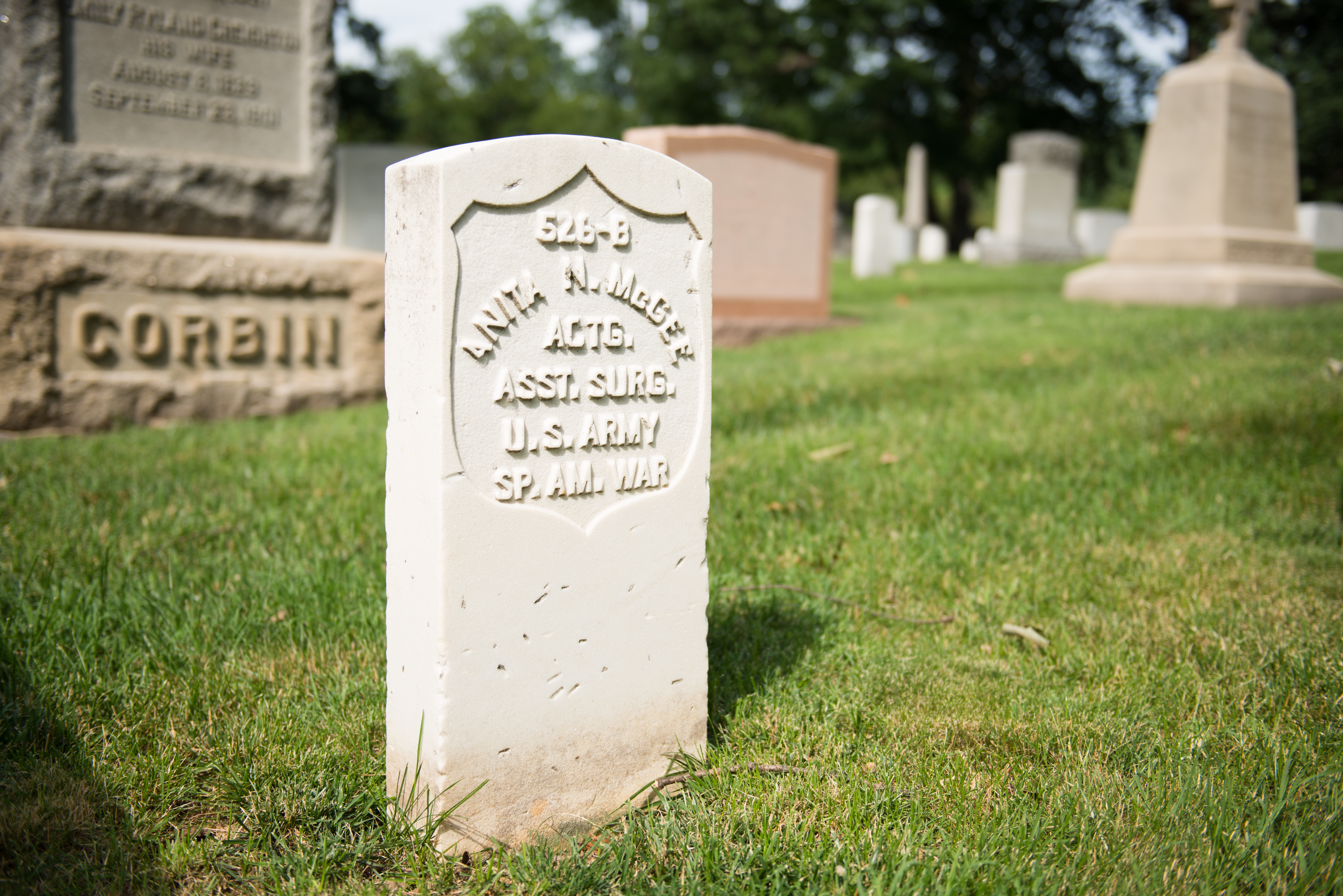 Anita Newcomb McGee, buried in Arlington National Cemetery’s Section 1, grave 526-B, was the first woman Army surgeon in 1898 and founder of the Army Nurse Corps in 1900. (U.S. Army photo by Rachel Larue/released)